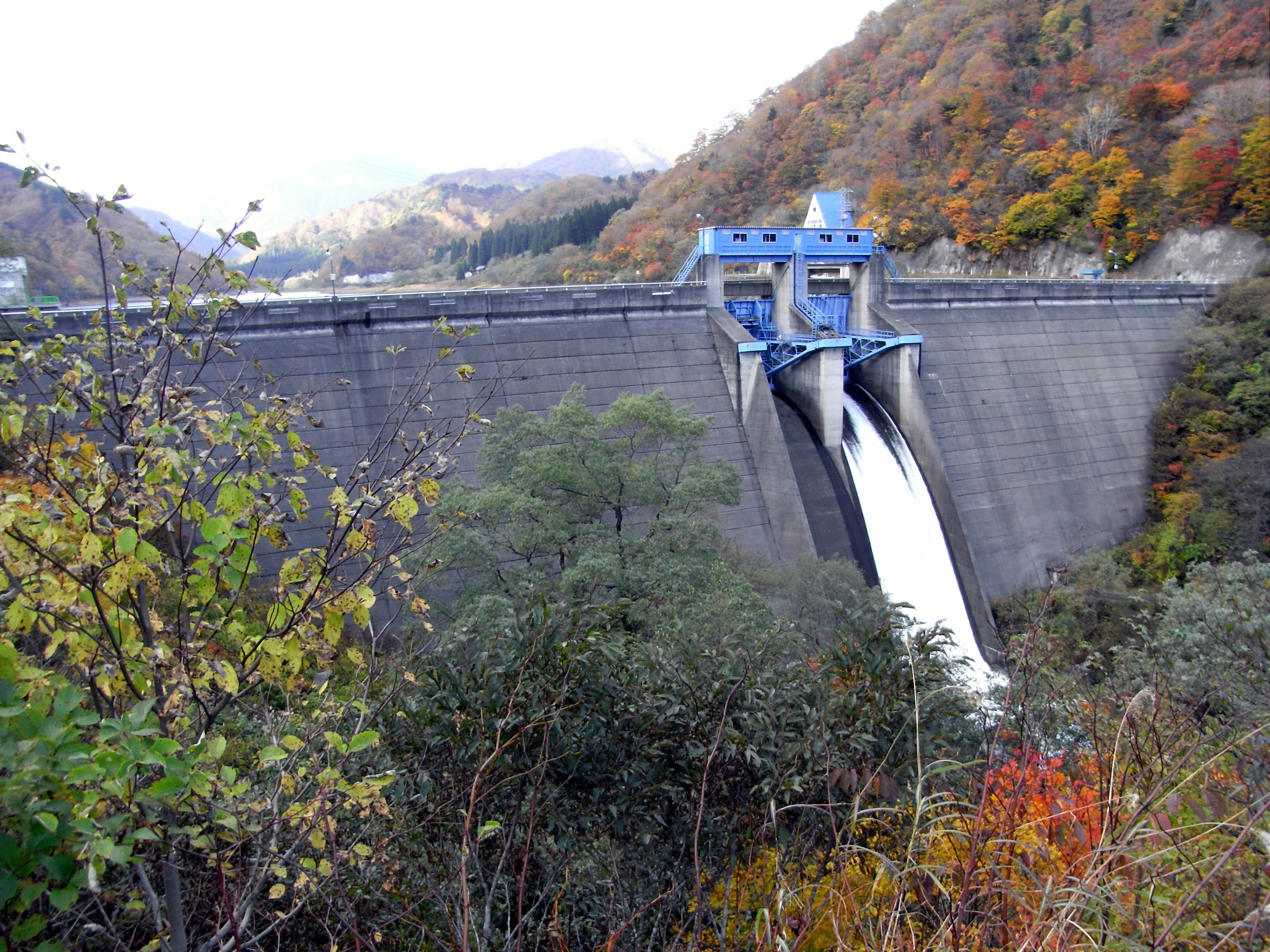 Kijiyama Dam(Okitamanogawa river/Yamagata Pref./Japan)